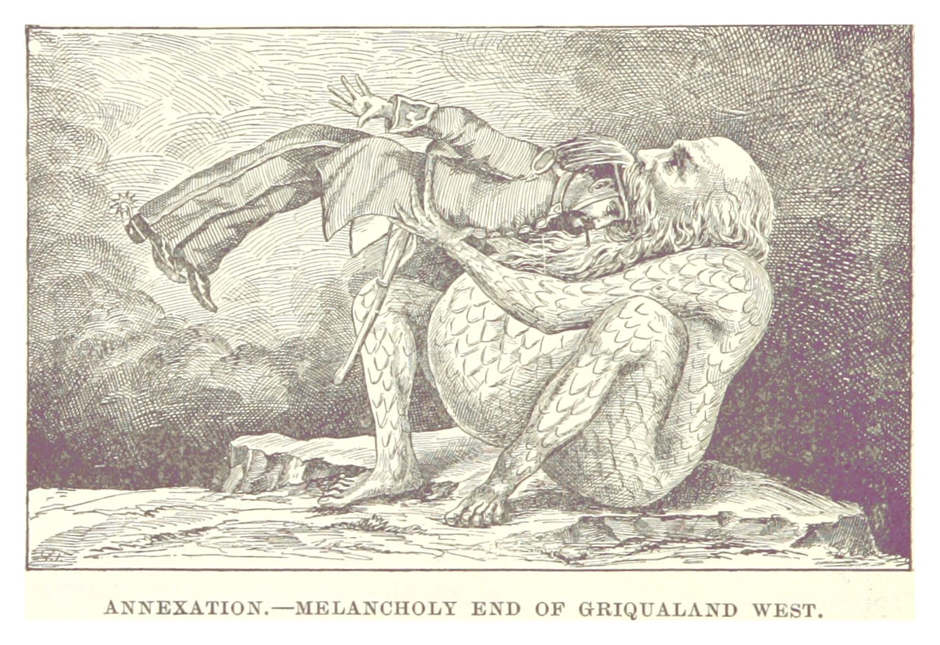 Major William Owen Lanyon, the British Imperial Administrator of Griqualand West, is shown being devoured by the Cape Colony monster.